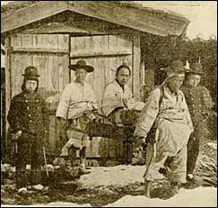 Jeon Bong-jun after his capture in 1894